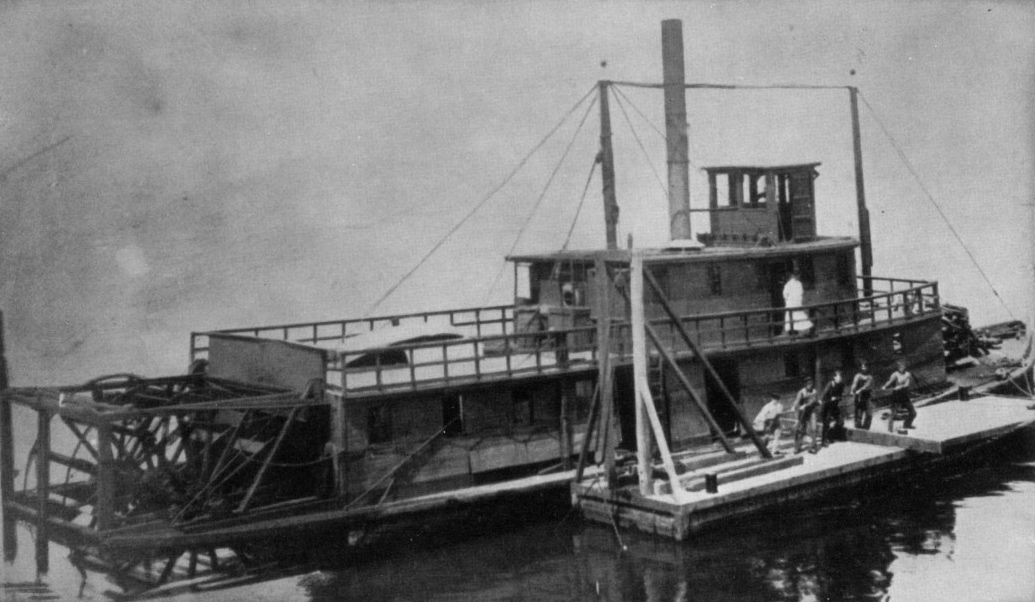 Puget Sound sidewheeler Zephyr, built 1871. Some sort of work activity involving men hauling on a block and tackle is occurring on the wharf float next to the vessel. They appear to be engaged in raising something under the water.